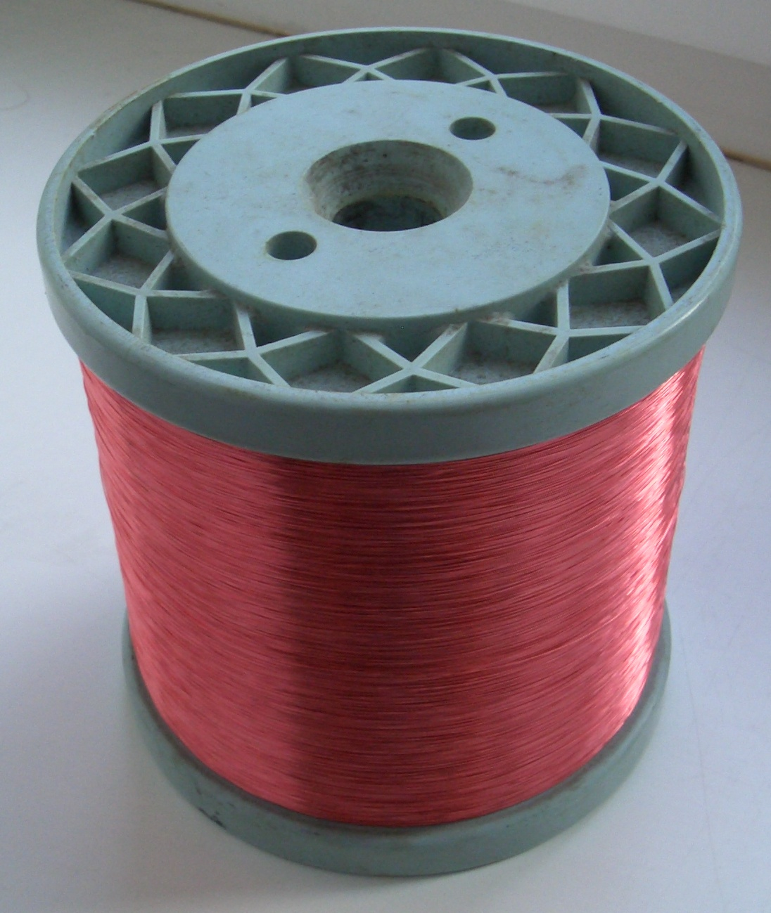 A bobbin with enameled wire (wire diameter 0.18mm)